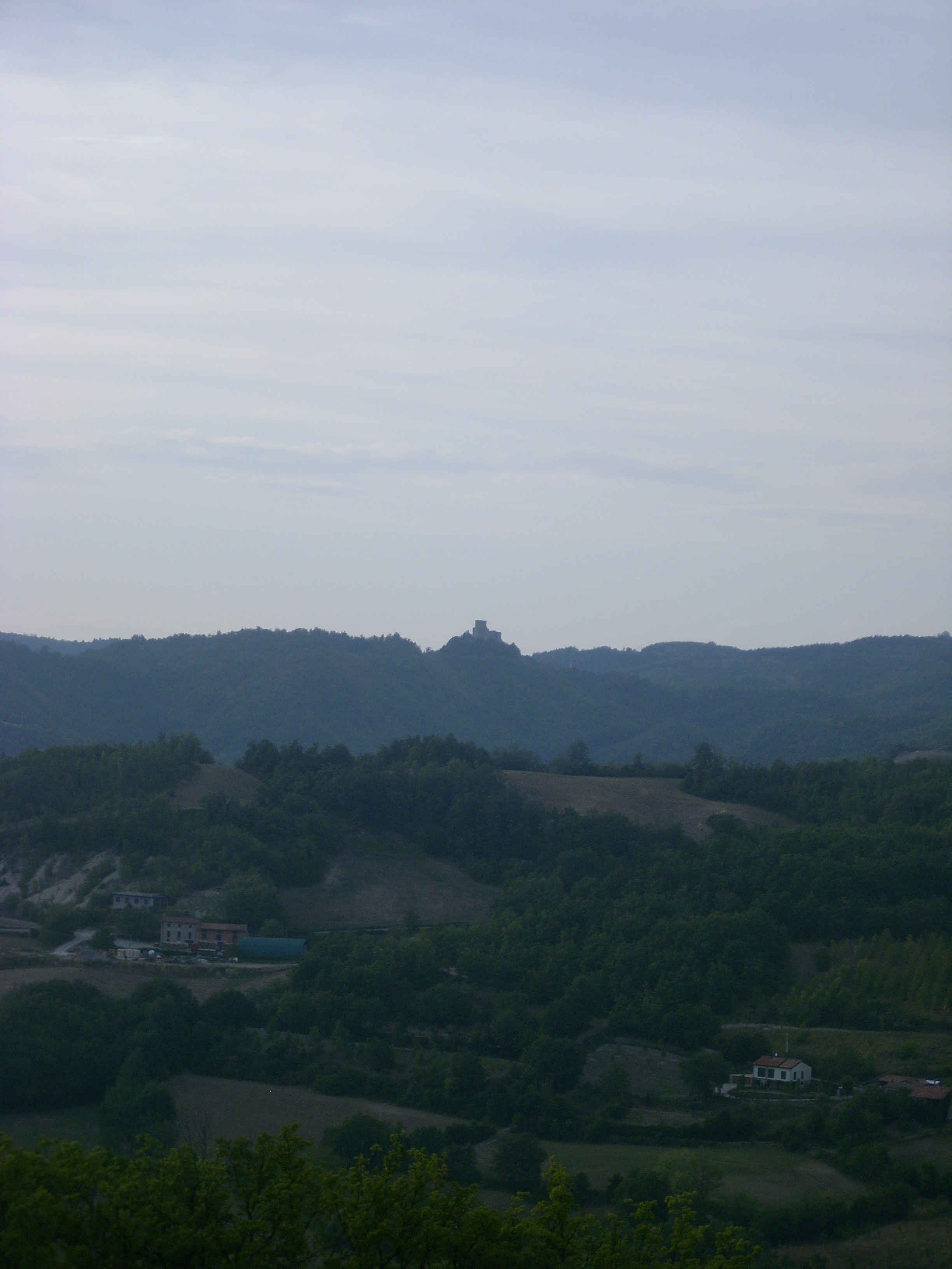 skyline with Oramala Castle